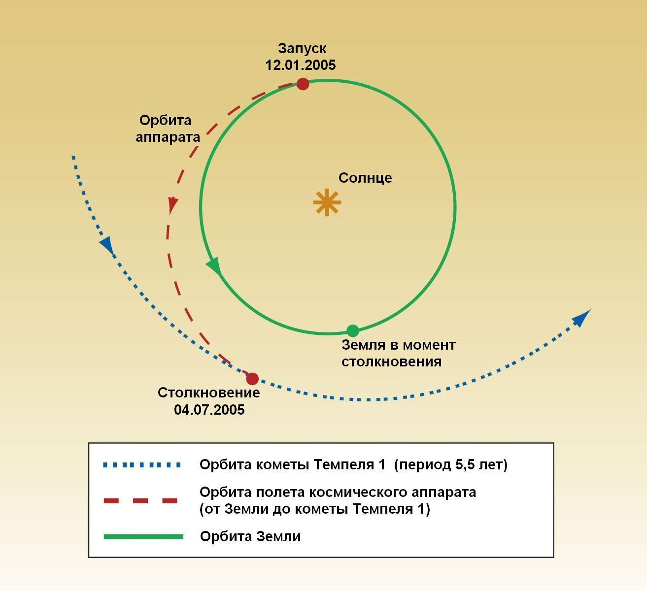 Trajectory of the Deep Impact spacecraft (signs in Russian)